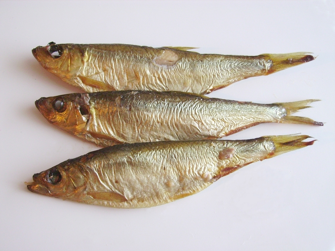 Some smoked European sprats, in Germany called ‚Kieler Sprotten‘.